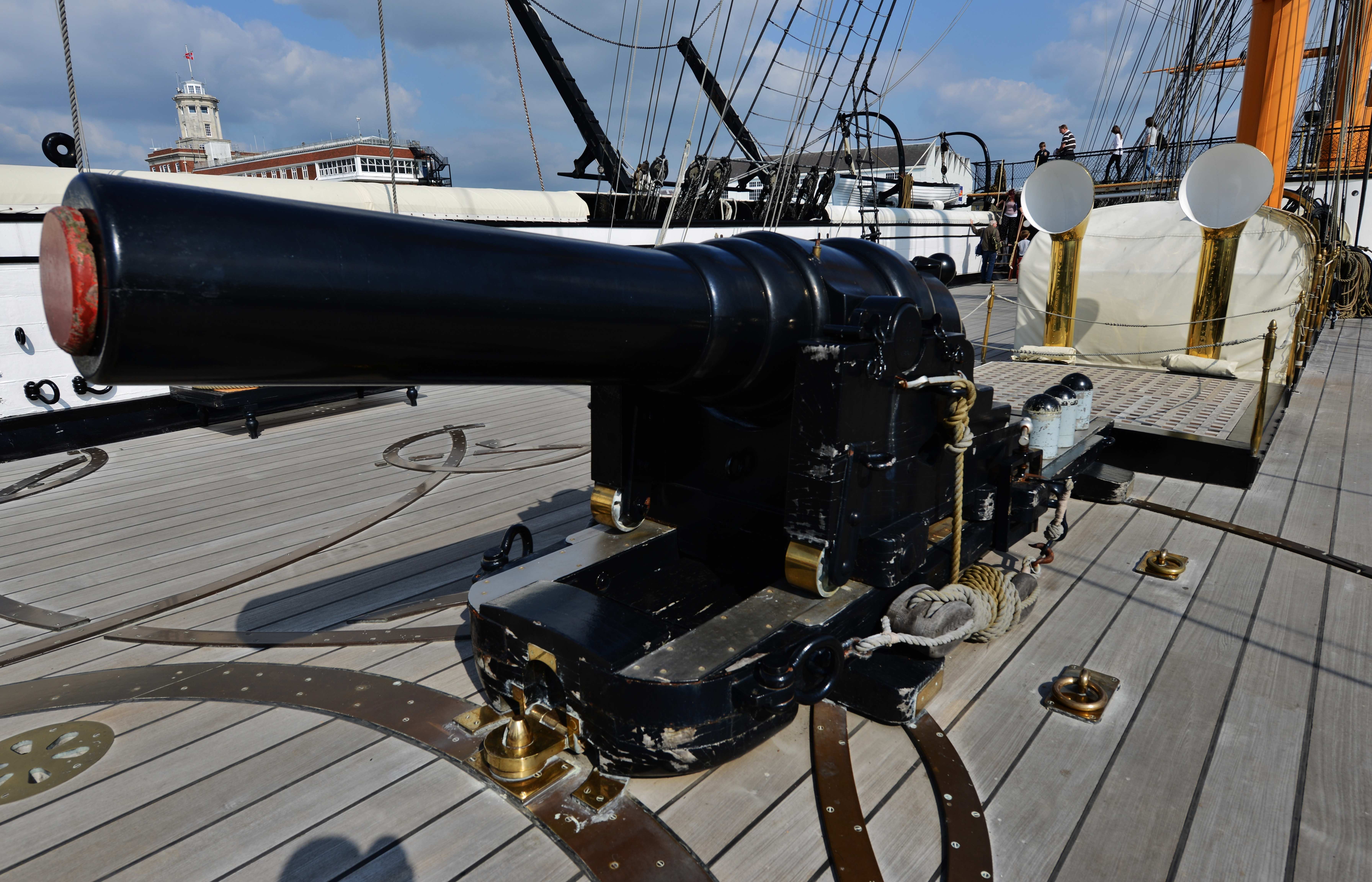 Photo by Michael Garlick